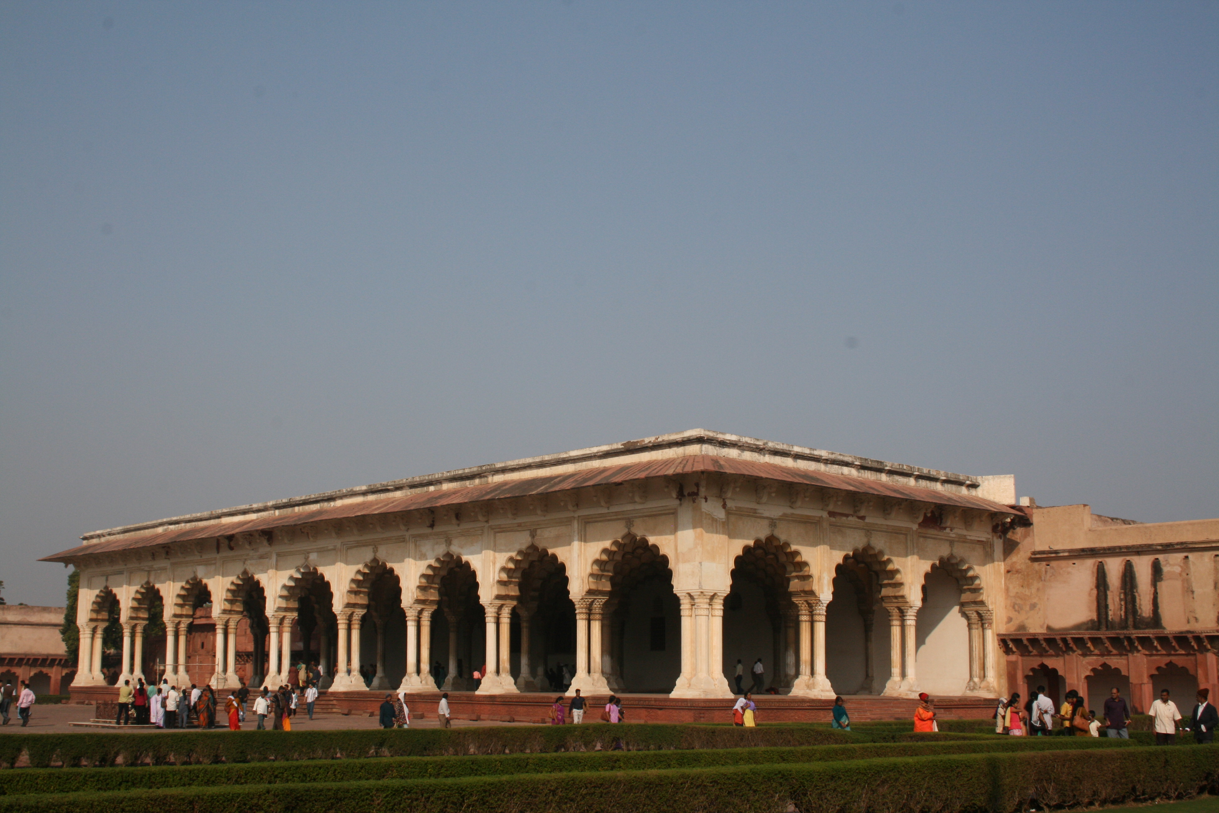 Diwan-i-Am, Agra Fort, Agra, India